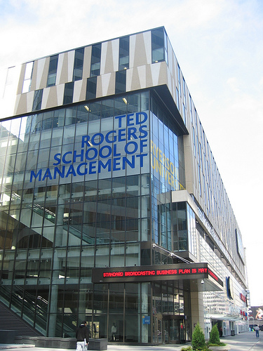 Ted Rogers School Of Management